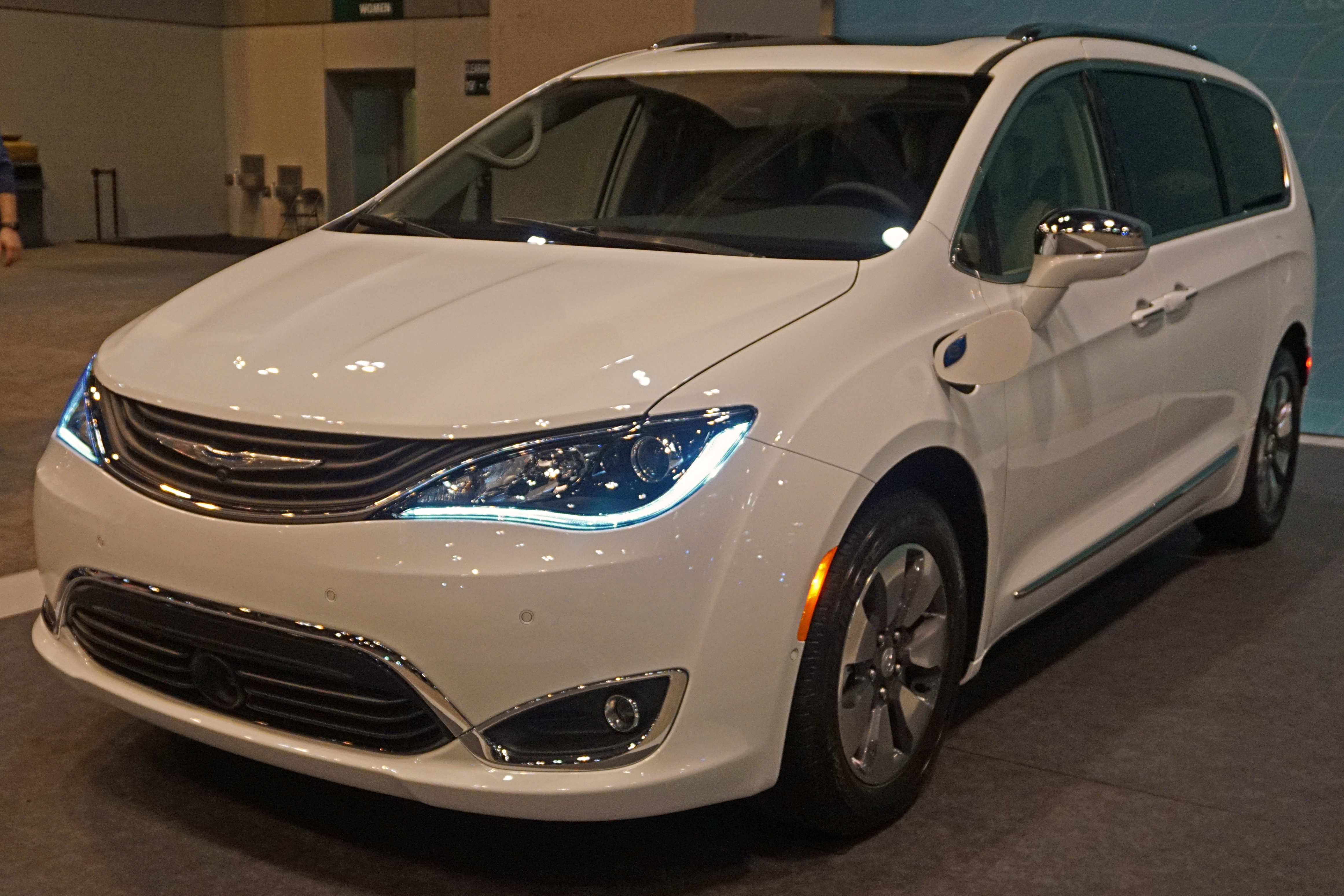 2017 Chrysler Pacifica Hybrid